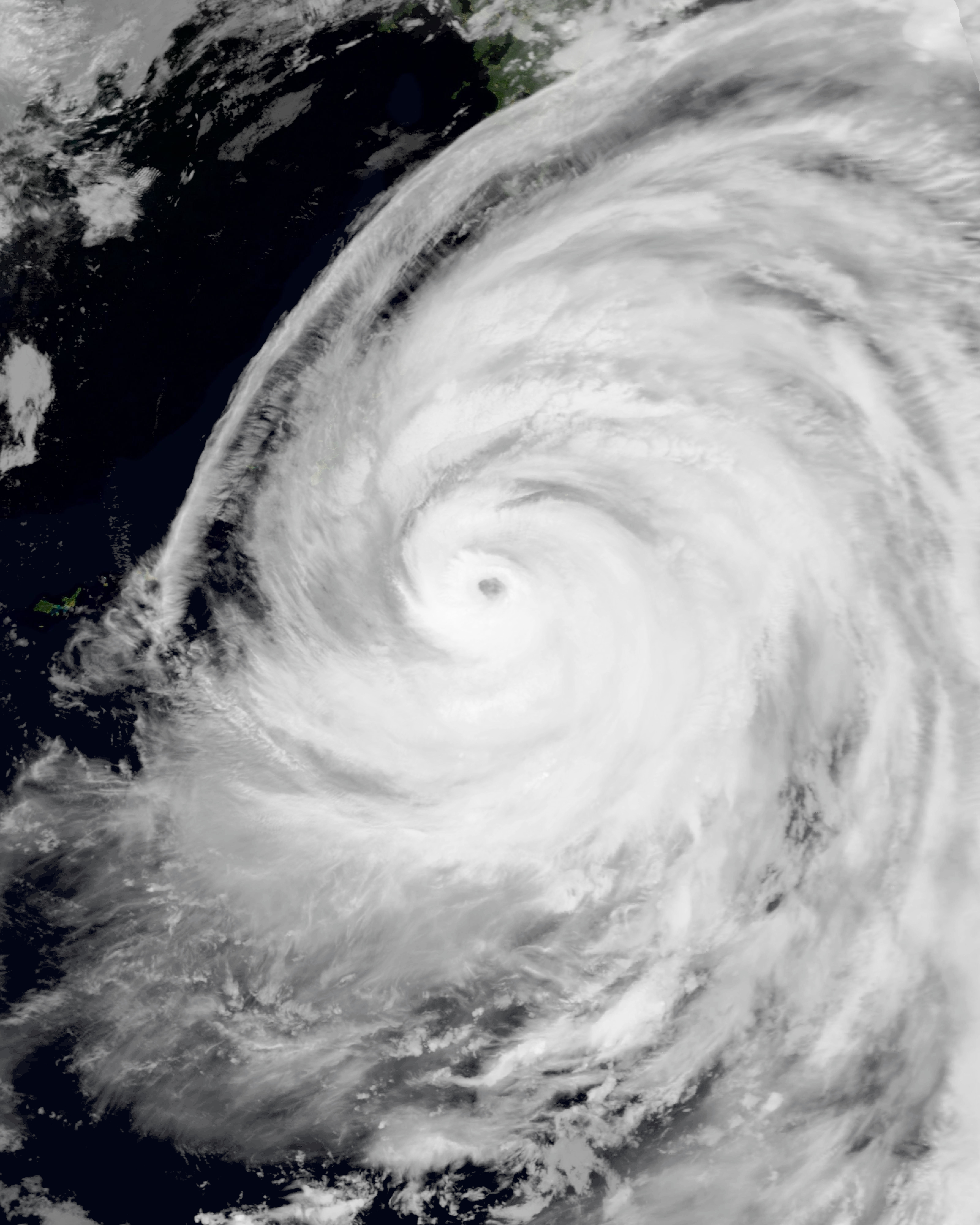 Typhoon Songda at peak intensity on September 4, 2004.